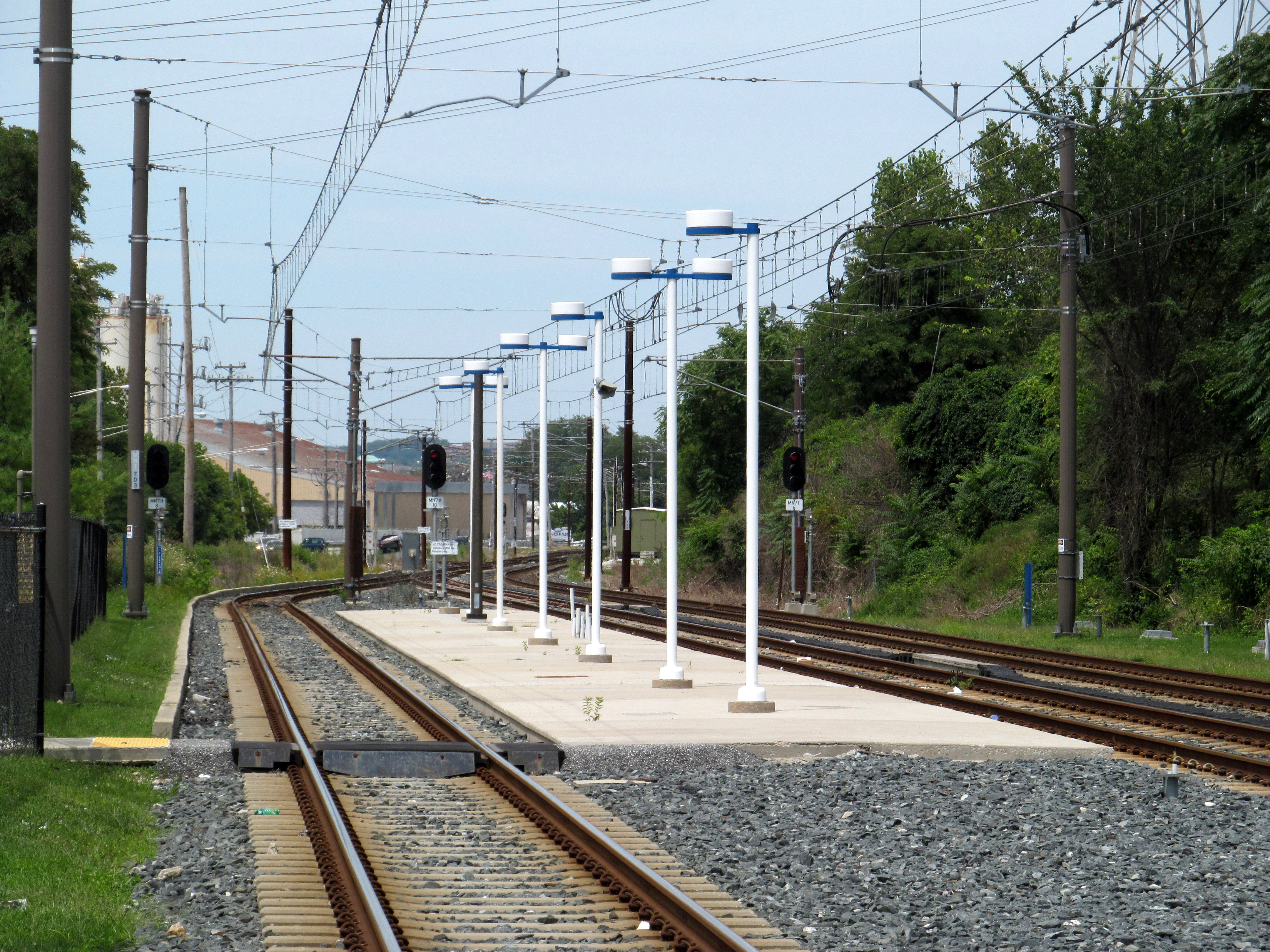 Platform of the unfinished Texas station in August 2014. Built in 2005 during double-tracking work, it was never finished nor used for passenger operations.